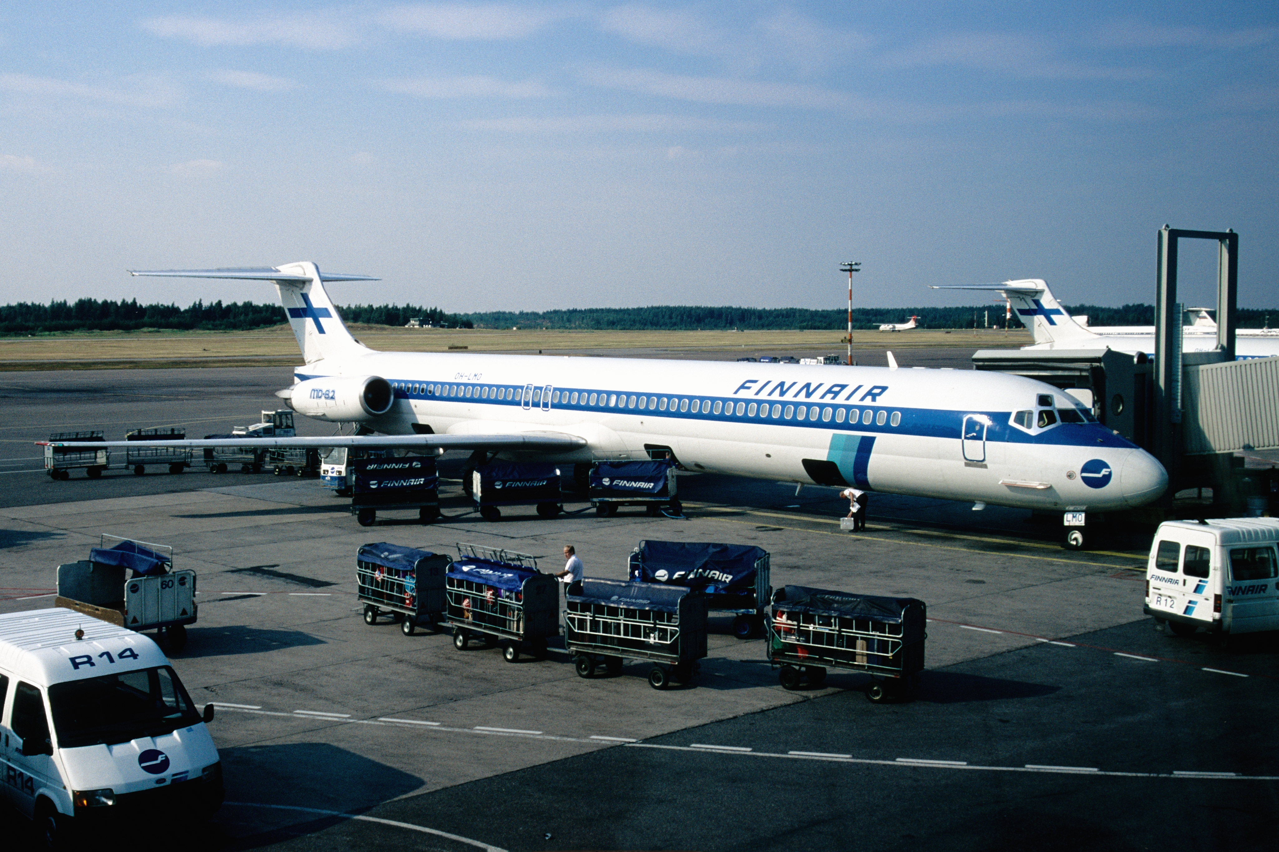 A McDonnell Douglas MD-82 (DC-9-82) aircraft (OH-LMO) of Finnair at Helsinki-Vantaa Airport